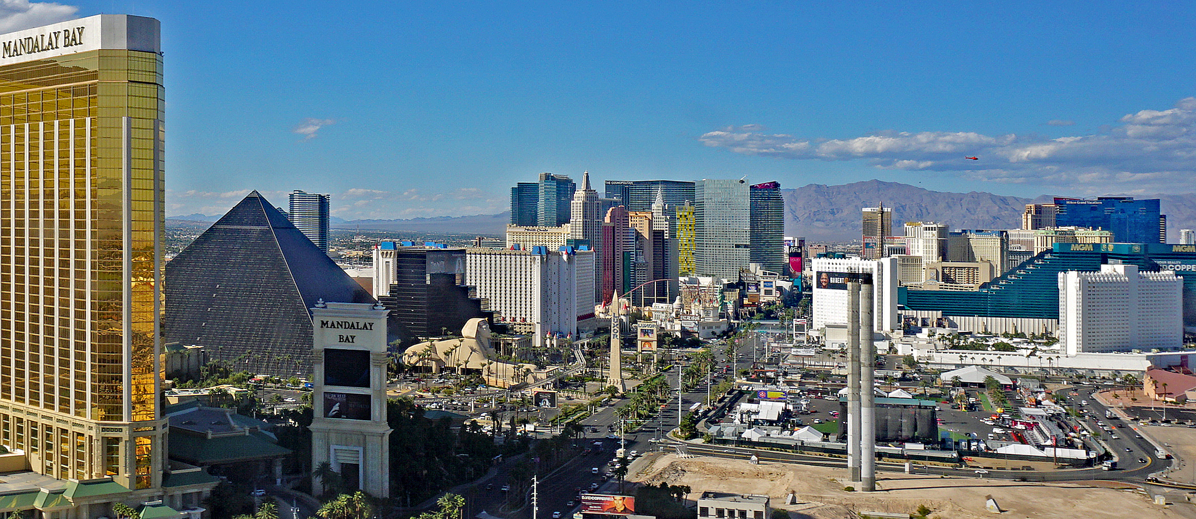 Route 91 Harvest Festival shooting site, Las Vegas Village and Festival Grounds, Las Vegas Strip, Nevada. Pictures were taken one week before the beginning of the country music festival from a helicopter. The image shows final preparations for the Route 91 Harvest Festival and the surrounding main casinos and hotels.